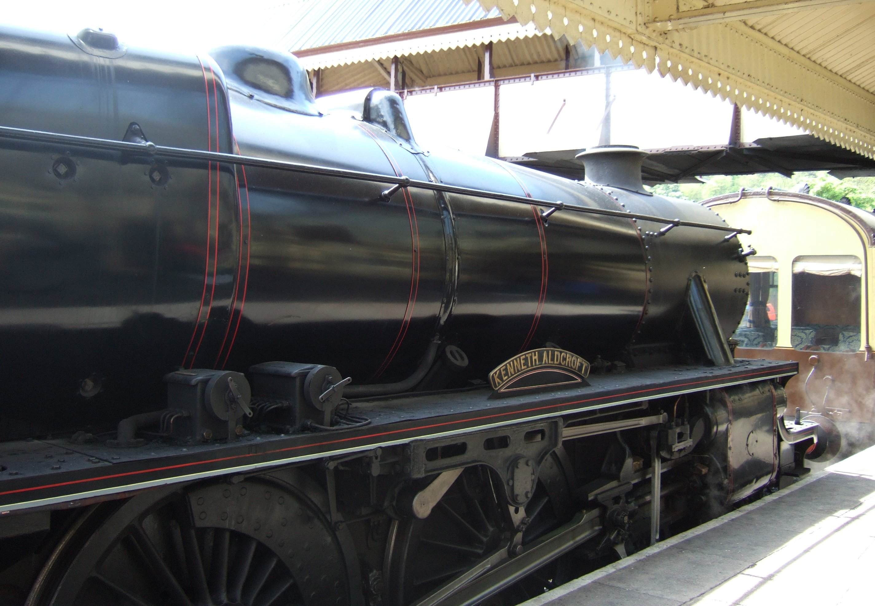 LMS Stanier Class 5 4-6-0 44806 Kenneth Aldcroft at Llangollen station